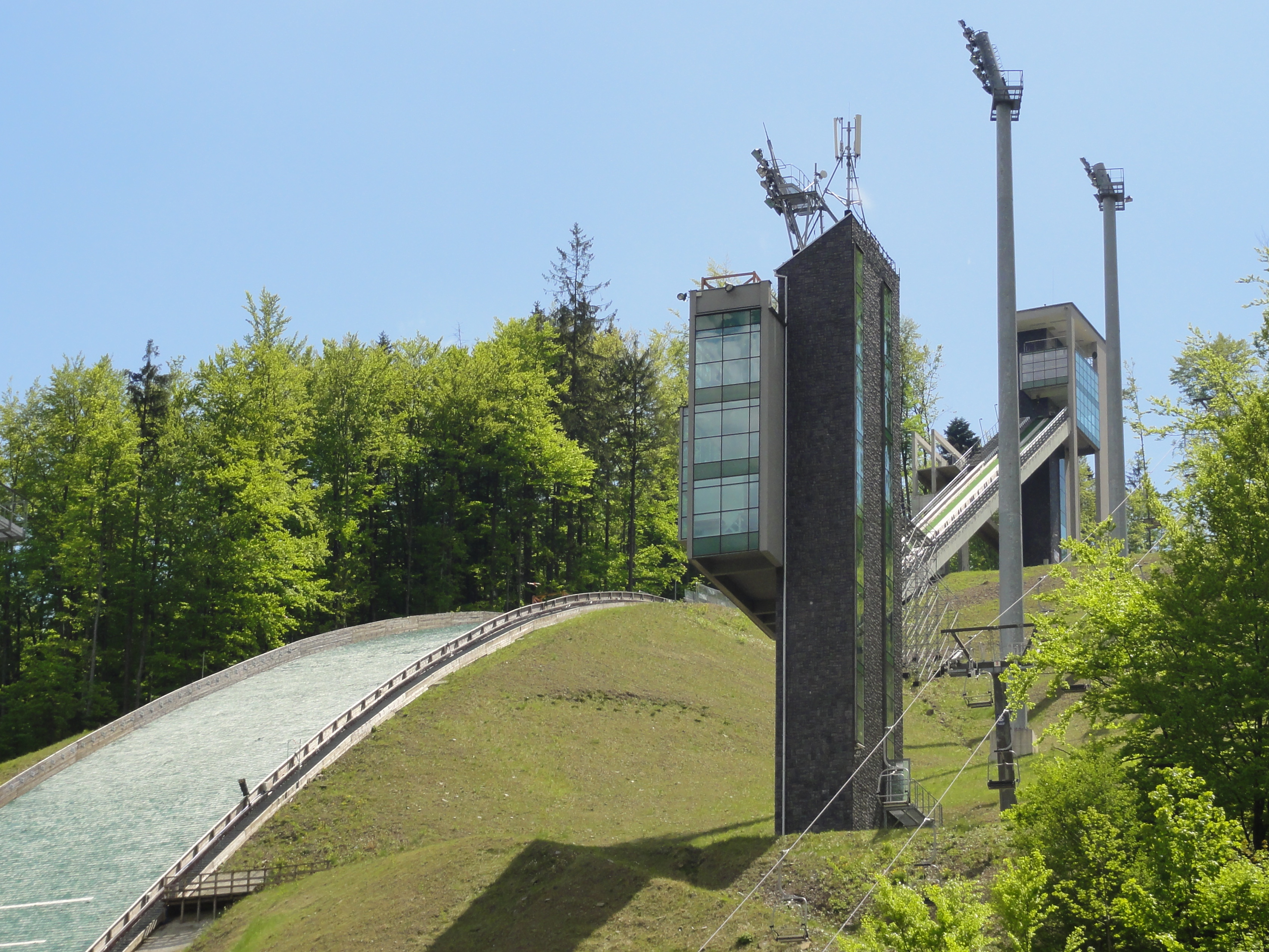 Wisła Malinka Ski Jumping Hill